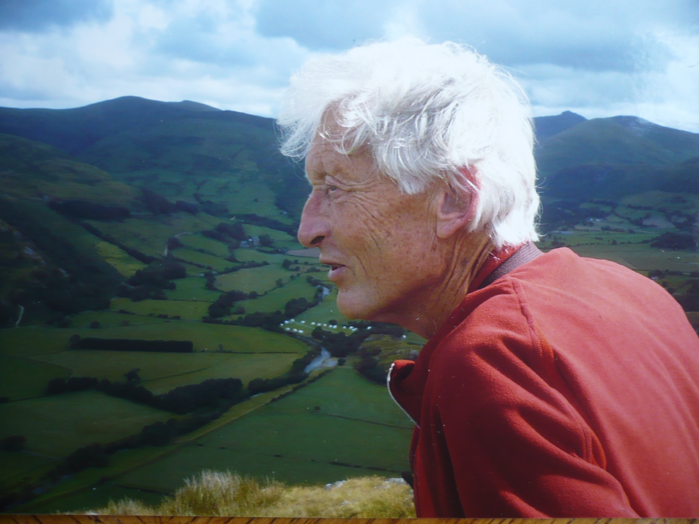 R. T. France